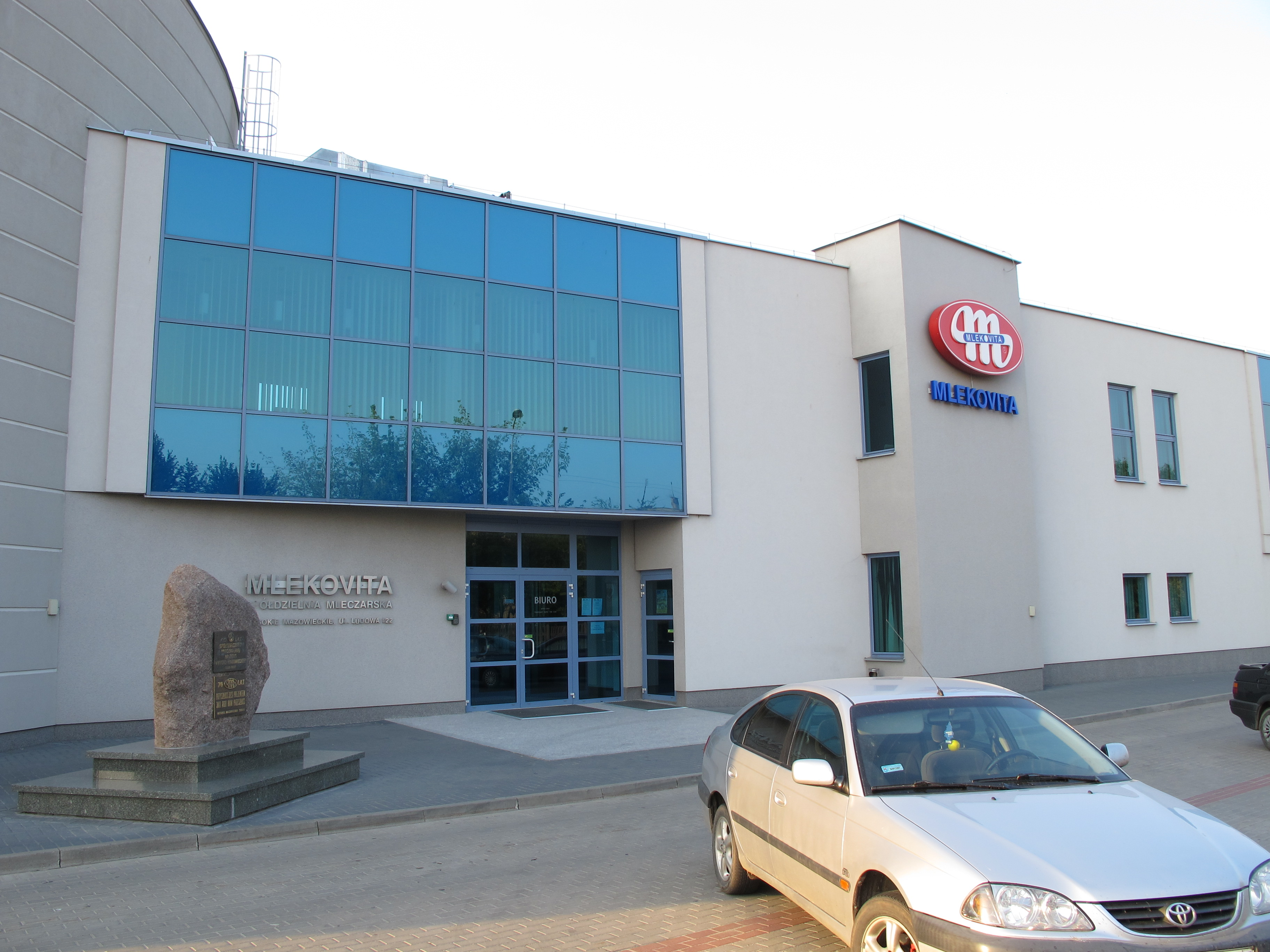 Mlekovita Office by Ludowa 122 street in Wysokie Mazowieckie, podlaskie, Poland